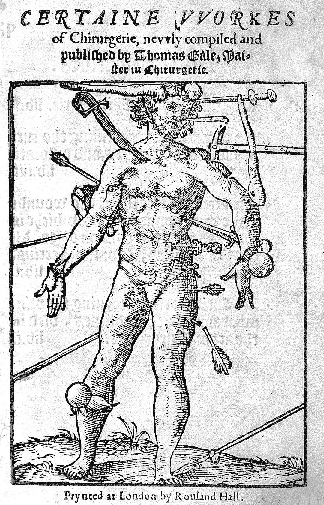 A "wound man", anon. Rare Books Keywords: medicine, 16th century; surgery, 16th century; wounds and injuries; Thomas Gale